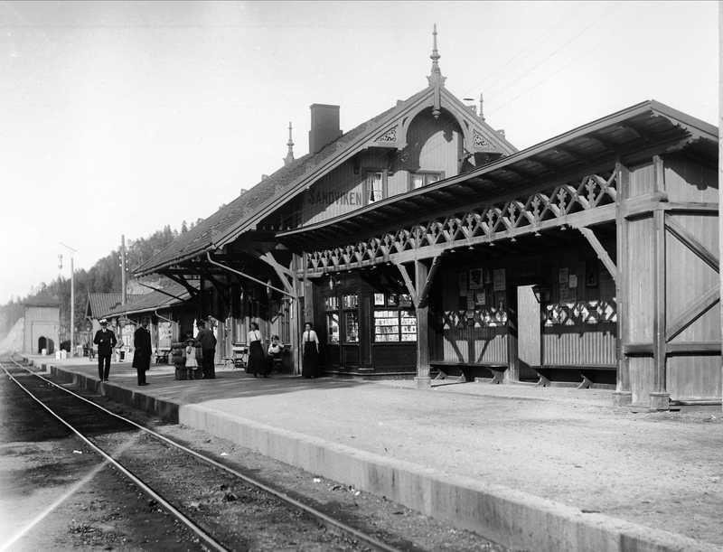 Sandvika Station, Bærum, Norway